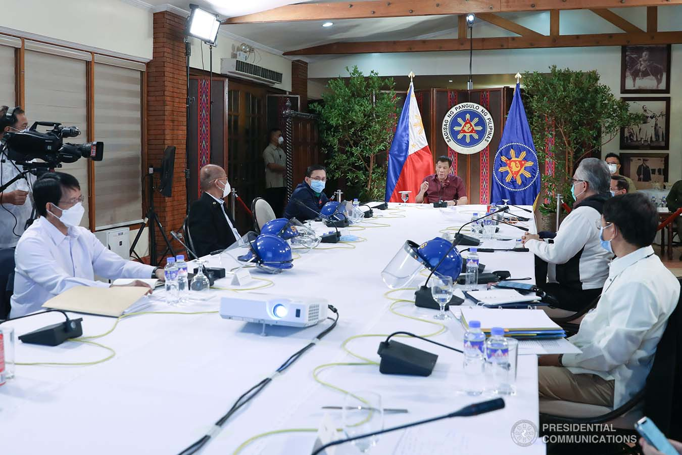 President Rodrigo Roa Duterte holds a meeting with members of the Inter-Agency Task Force on the Emerging Infectious Diseases (IATF-EID) at the Malago Clubhouse in Malacañang on May 19, 2020. KARL NORMAN ALONZO/PRESIDENTIAL PHOTO